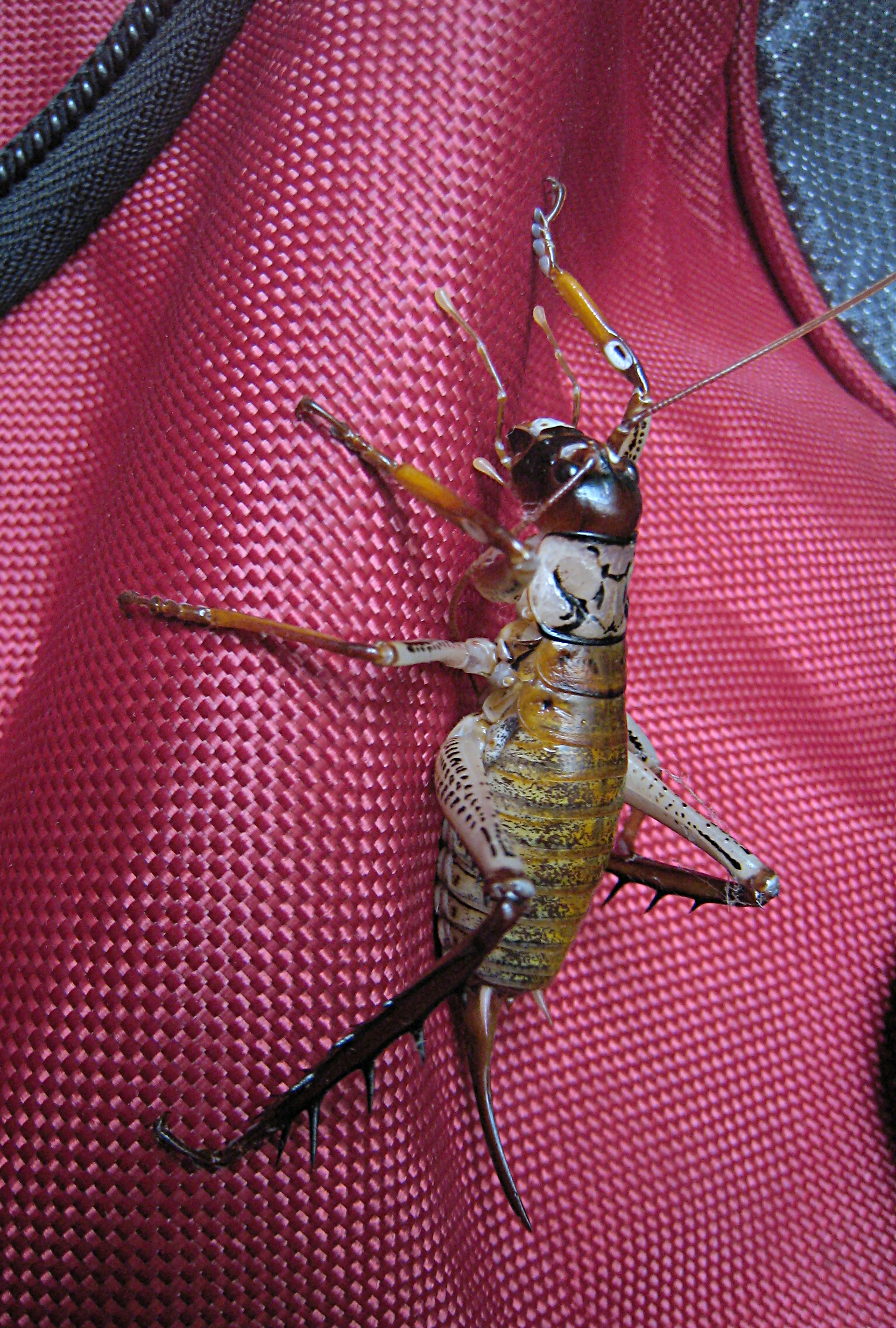 Female Auckland tree weta (Hemideina thoracica) on red duffel bag, at Piha, near Auckland, New Zealand. It was about 7 cm long, "nose" to "tail". (The "tail" is actually an ovipositor.)